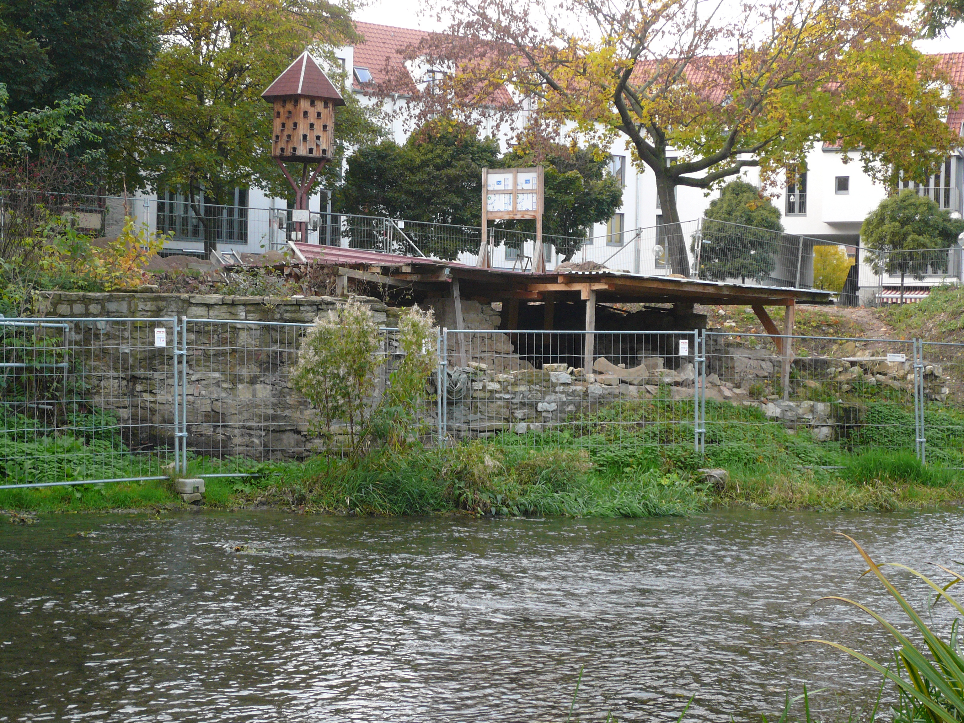 The old mikveh in Erfurt, Germany.